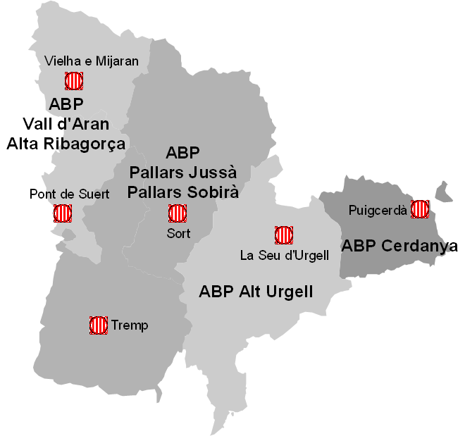 Map of West Pyrenees Police Region and police stations.